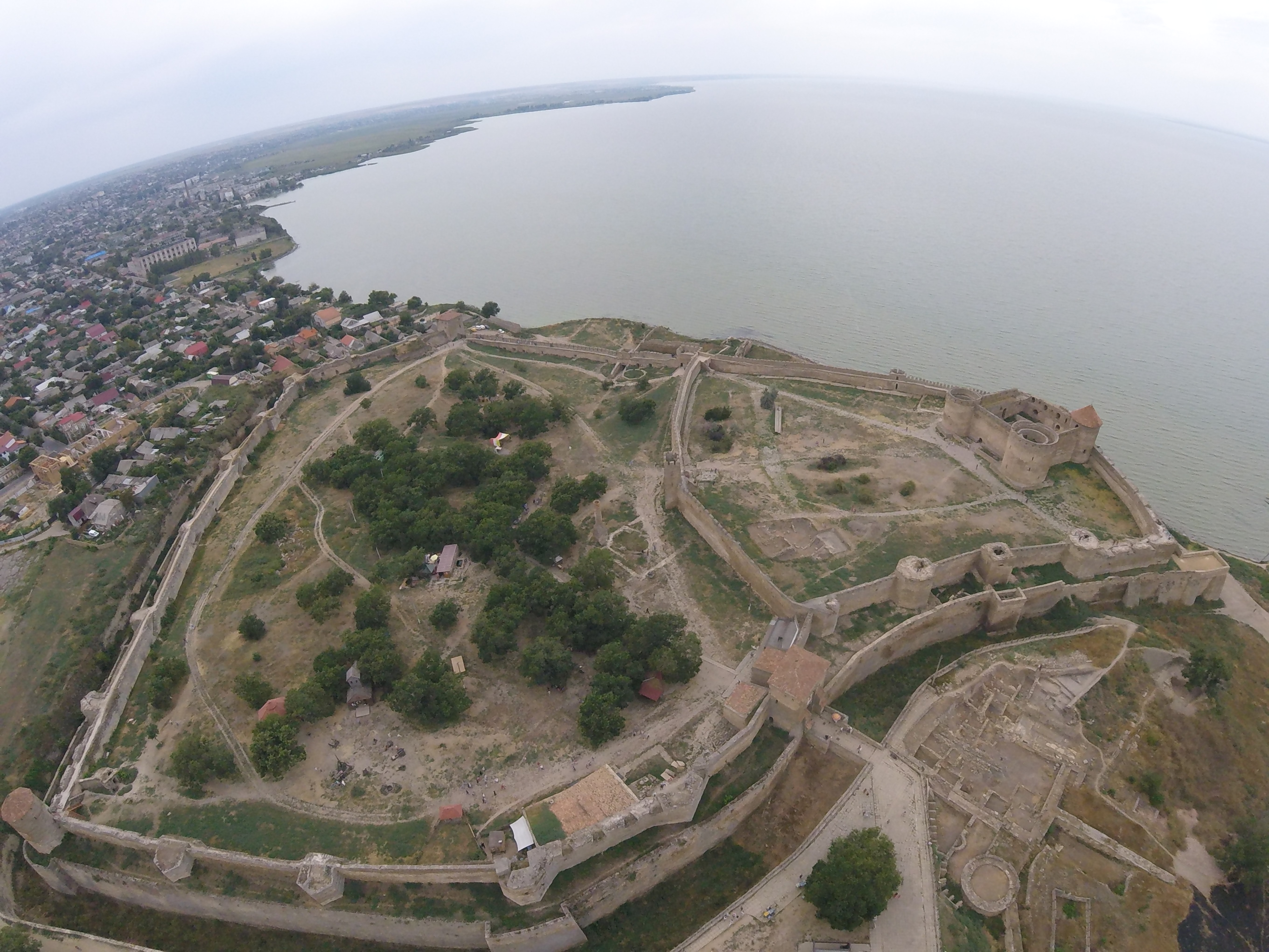 Aerial photo of the Akkerman fortress at the town of Bilhorod-Dnistrovskyi.